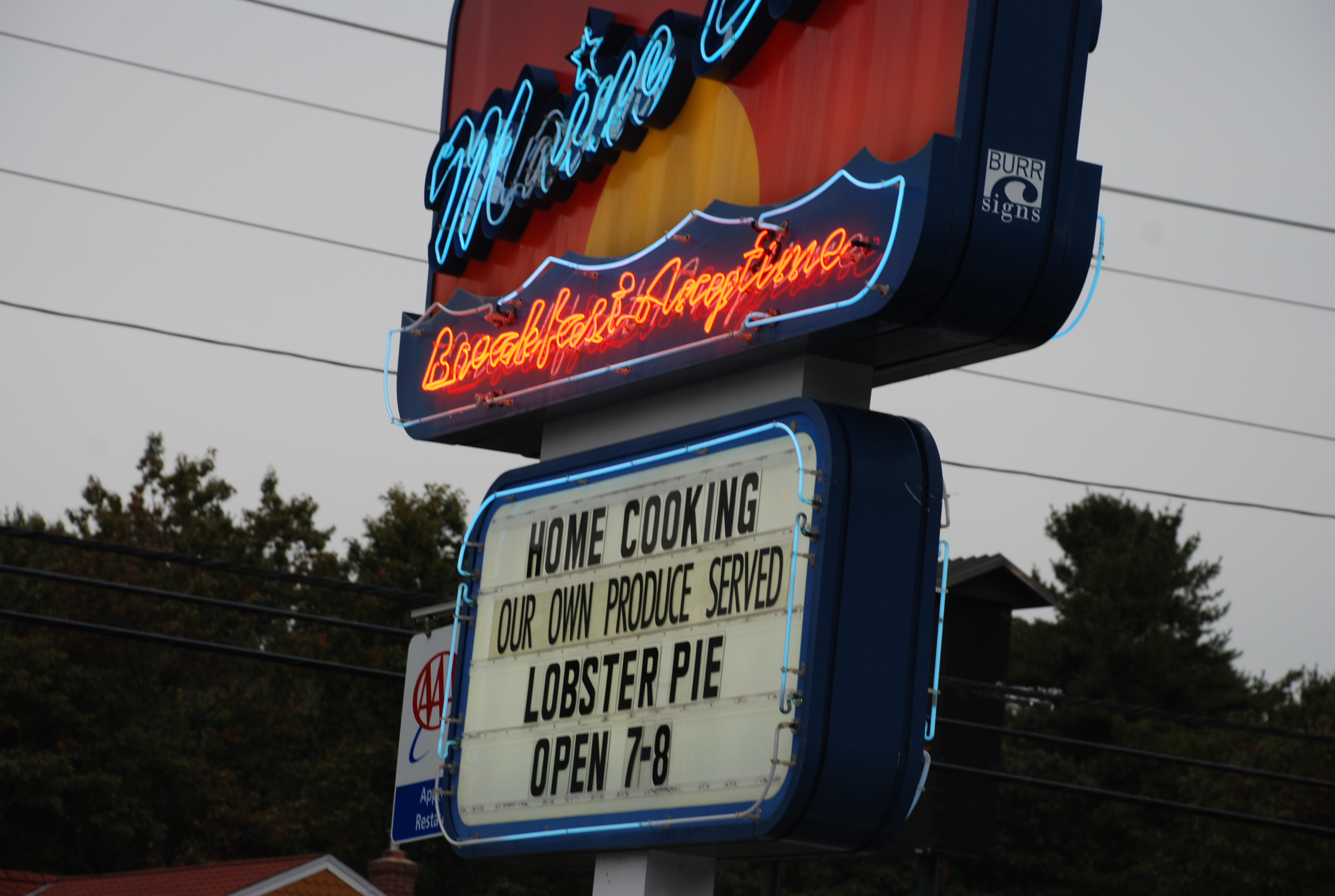 The Maine Diner is a diner in Wells, Maine. It serves breakfast, lunch, and dinner. The diner, which has a seating capacity of 90 and a year-round staff of about 60, serves an average of 1,200 to 1,500 patrons on a good summer day. The restaurant is known for its seafood chowder and lobster pie and other Down East fare. It serves breakfast all day. Behind the diner is a garden which provides vegetables and herbs for the diner's dishes.